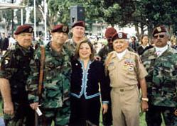 Congresswoman Linda Sanchez participates in Long Beach's Veterans Day celebration.